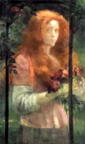 Dämmerung; oil on canvasmedium QS:P186,Q296955;P186,Q12321255,P518,Q861259; 100 × 60 cm